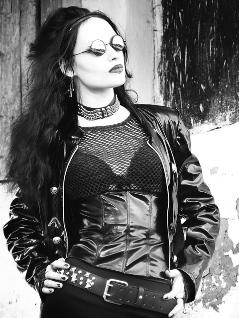 Russian gothic model